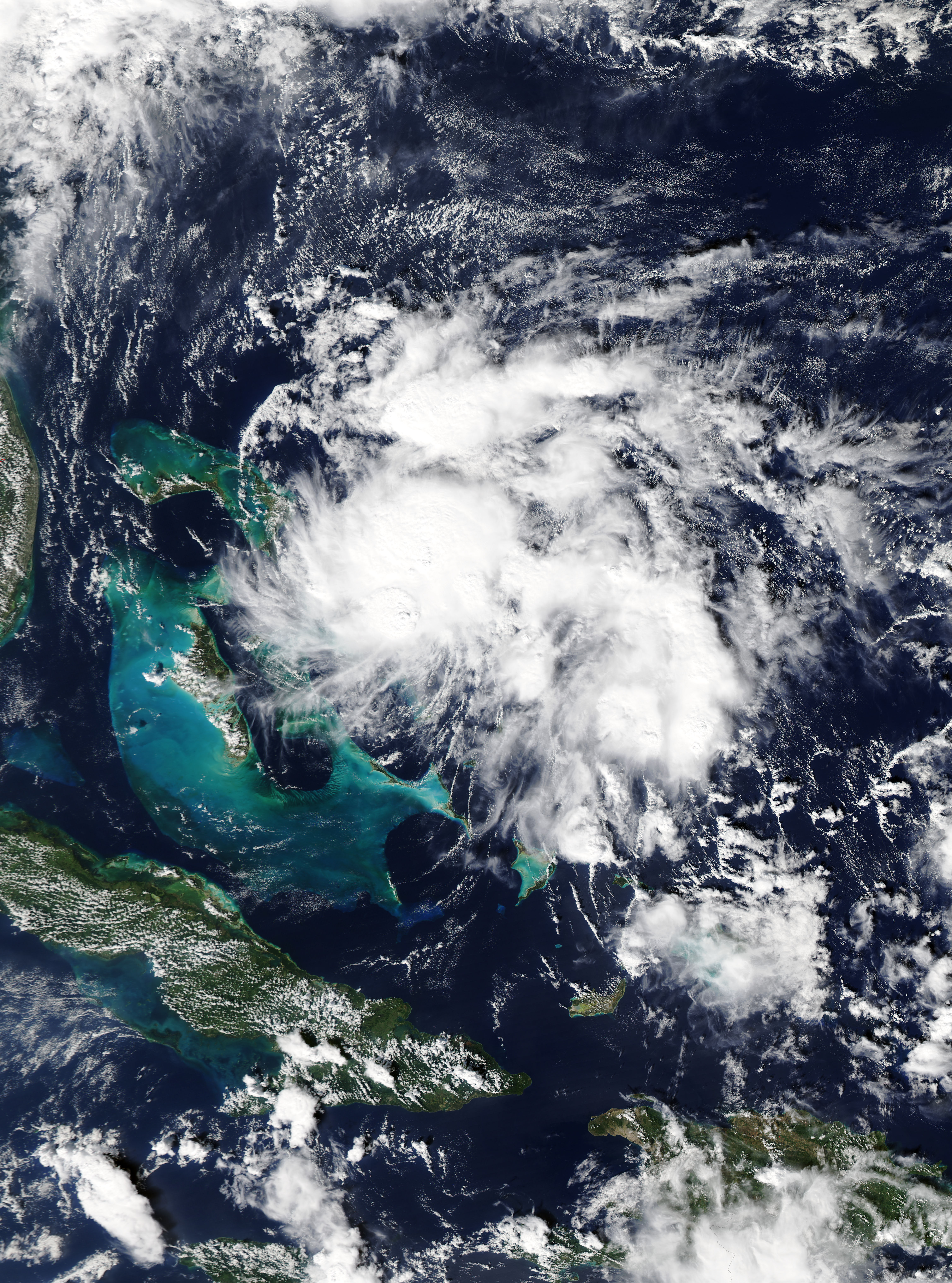 Tropical Storm Kate (12L) over the Bahamas